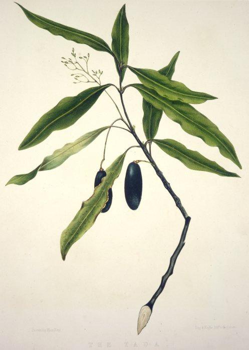 botanical illustration of Beilschmiedia tawa, Common name:Tawa. Lauraceae. Accompanying text reads: This is one of the most common trees of the New Zealand forest. The wood is worthless for most purposes, but splits with great ease. The wild pigeons feed on the berries, which taste strongly of turpentine. The inside of the berry consists of a nut like that of an acorn, which forms equally good food for pigs.